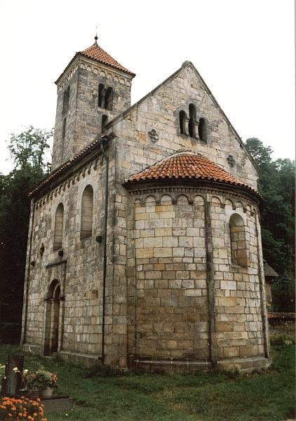 Romanesque church of the Assumption of the Virgin Mary (12th century) in Mohelnice nad Jizerou, Mladá Boleslav District, Czech Republic